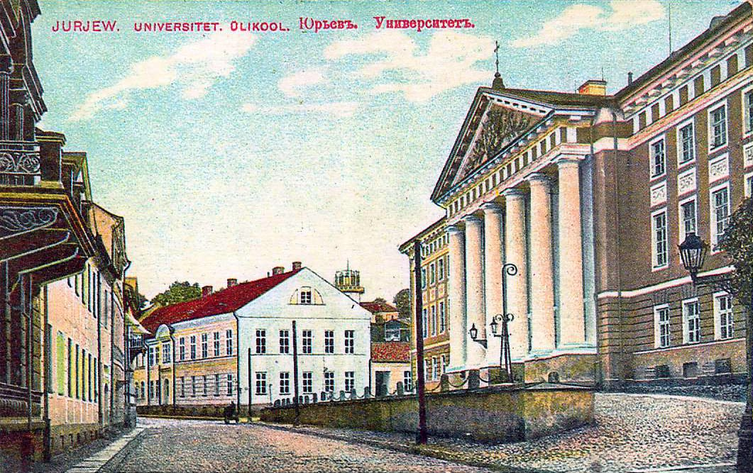 Main building of the University of Tartu